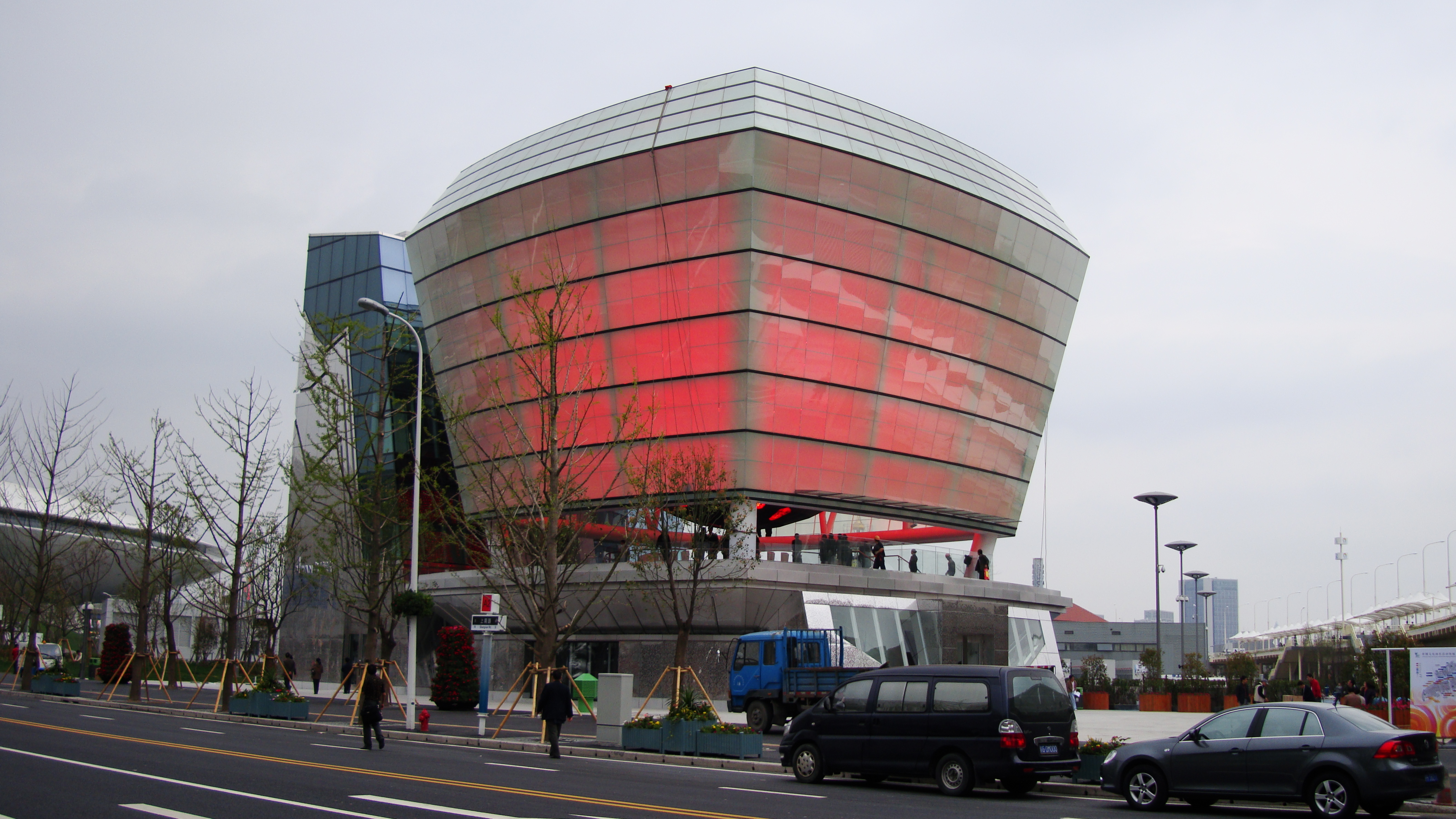 Taiwan pavilion of Shanghai expo2010.